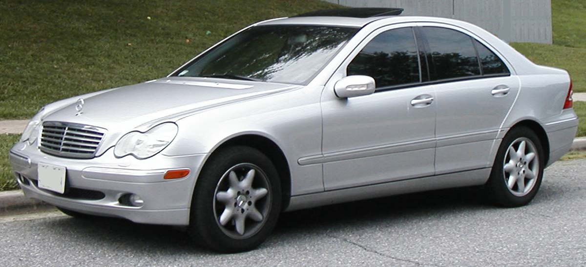 2001-2005 Mercedes-Benz C240 photographed in USA.